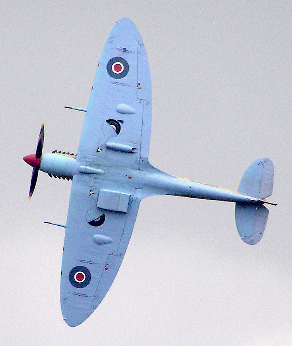 Spitfire (probably Mk.IXc) in planform at Kemble Air Day, Kemble airfield, Gloucestershire, England. Taken by Adrian Pingstone in June 2004 and placed in the public domain. Comment: this is earlier model (probably Mk.V - note single radiator) Pibwl 23:56, 19 July 2006 (UTC)